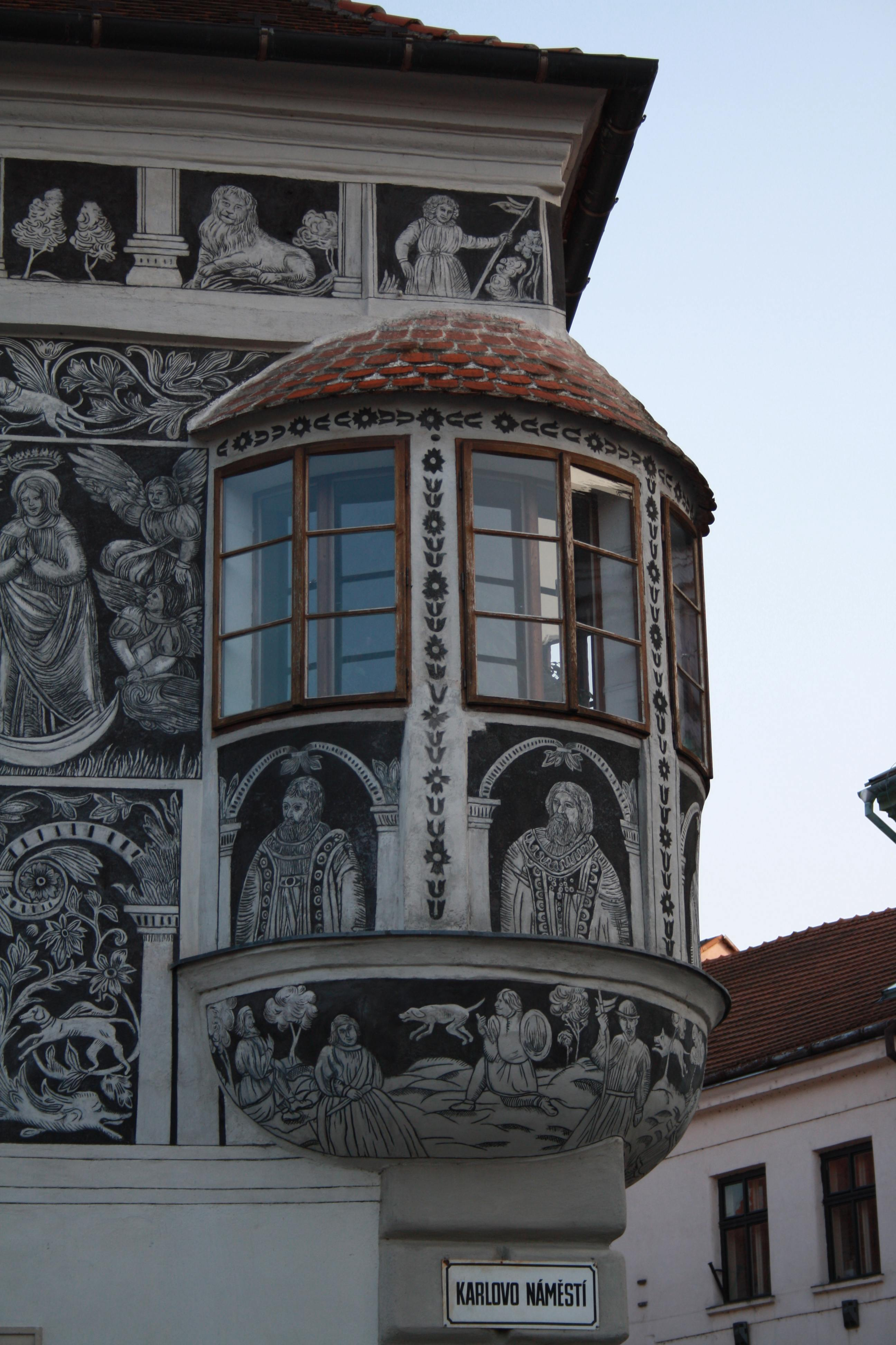 Bay windows with sgraffitos of Malovaný dům in Třebíč, Czech Republic.